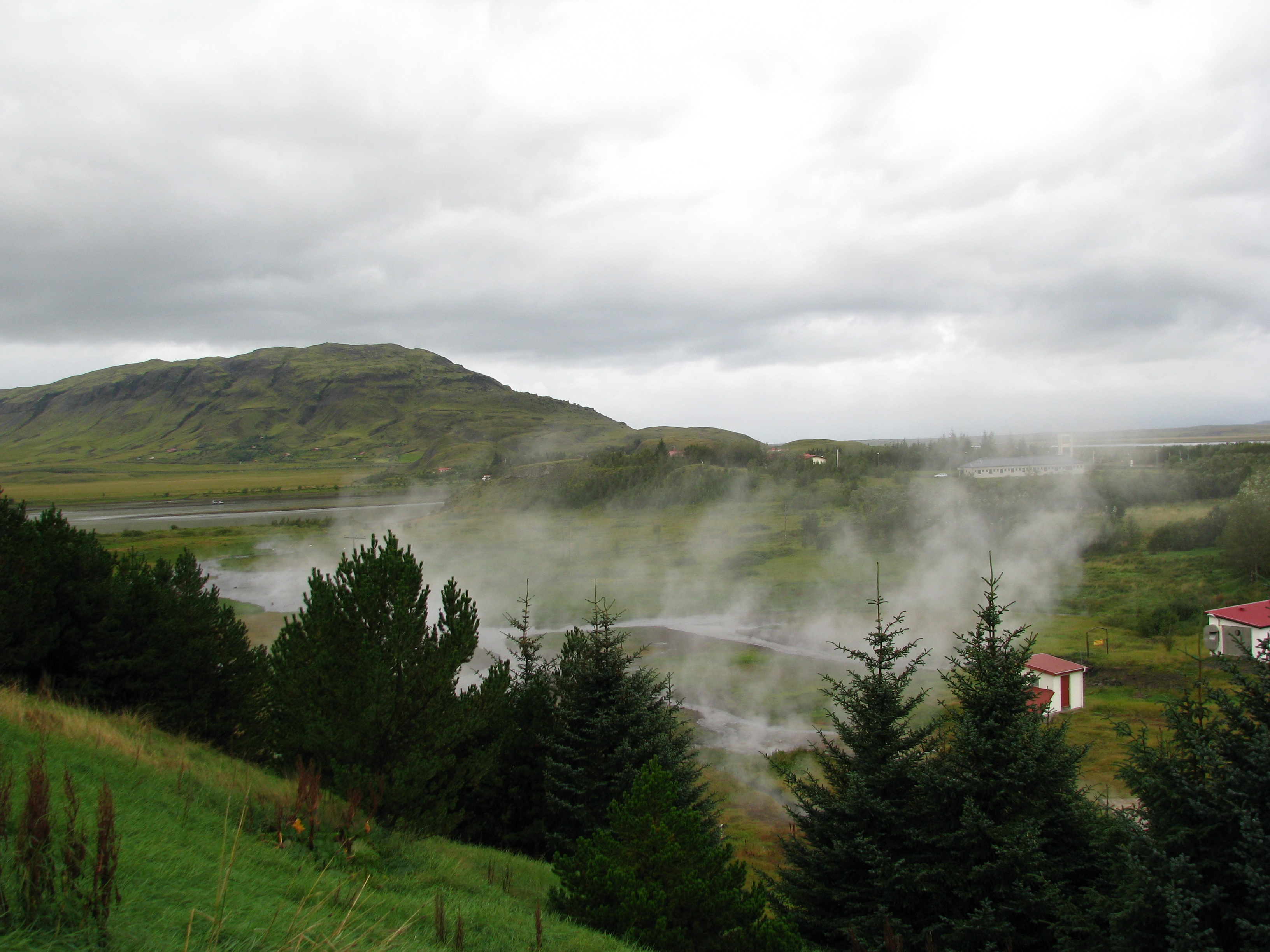 Laugarás, a little town with farmland on Iceland with geothermal heat.